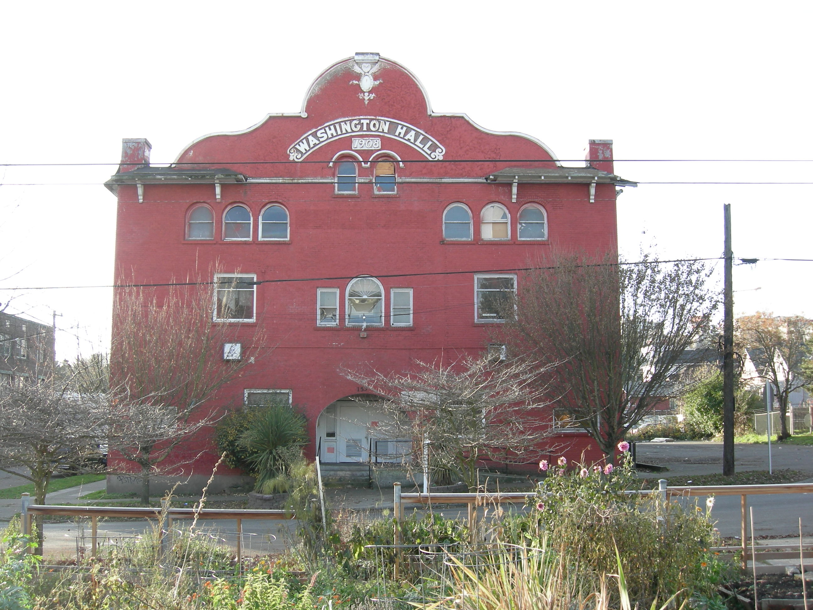 Washington Hall (also Washington Performance Hall), 153 14th Avenue, Seattle, Washington, USA. Built 1908 as a settlement house by the Danish Brotherhood Society in 1918 it was the site of the NAACP's "Grand Benefit Ball", Seattle’s first documented jazz performance. Among those who appeared there over the years were Billie Holliday, Marian Anderson, Mahalia Jackson, W.E.B. du Bois, Joe Louis, Duke Ellington, Martin Luther King Jr., and Jimi Hendrix. From 1958 the building housed the Sons of Haiti Masonic Lodge. From 1978–1998 it was the leased home of avant-garde theater On the Boards, and was also the site of quite a few punk rock shows from the late 1970s into the 1980s. As of 2007, it looks like it's in a bit of a limbo; I think it's for sale. (See Pam Sitt, Historic theaters still in operation, Seattle Times, August 12, 2001. Sitt doesn't mention the punk rock shows, but I can vouch for those first-hand. - Joe Mabel) Seen here from the P-Patch community garden across the street.